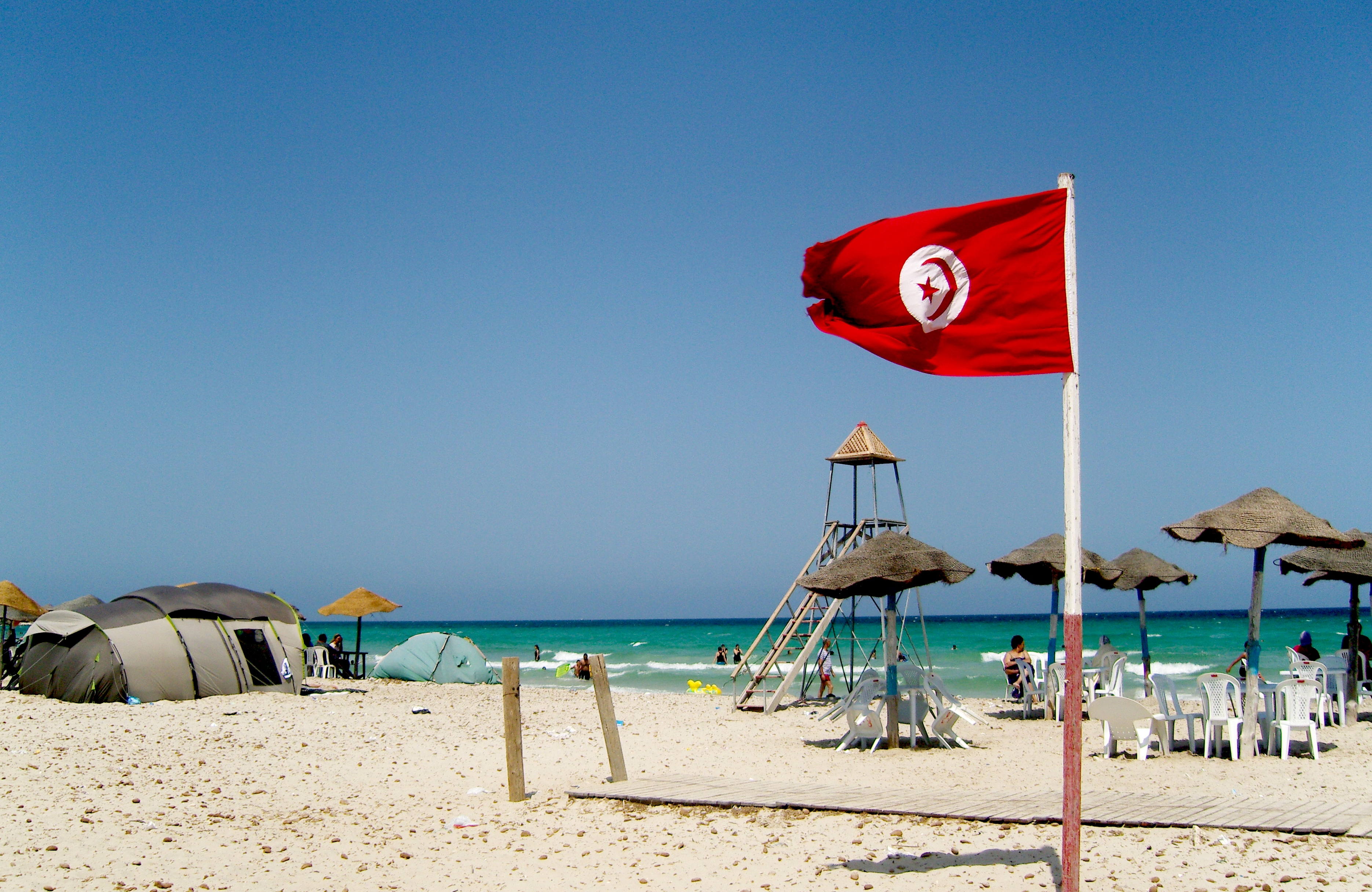 This Photo has been taken with a Samsung NV20 digital camera.